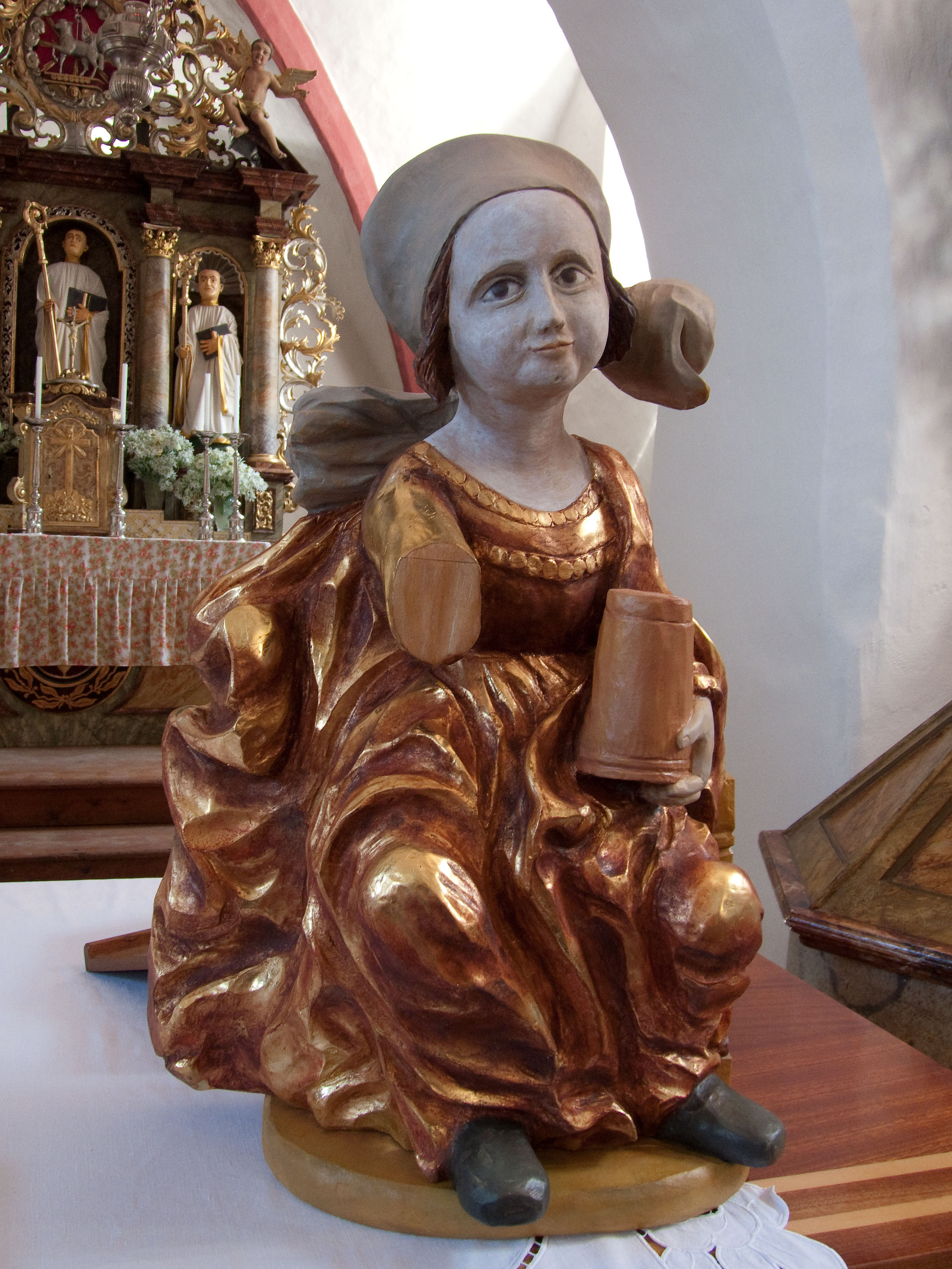 Statue of St. Mary Magdalen in Čakov, České Budějovice district, Czech Republic; the original is at Alšova jihočeská galerie at Hluboká nad Vltavou